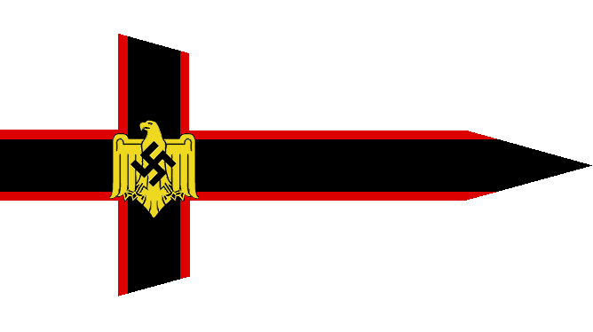 Burgee of the Yacht-Club von Deutschland Monatsschrift des Yacht-Clubs von Deutschland Nr. 10, August 1938